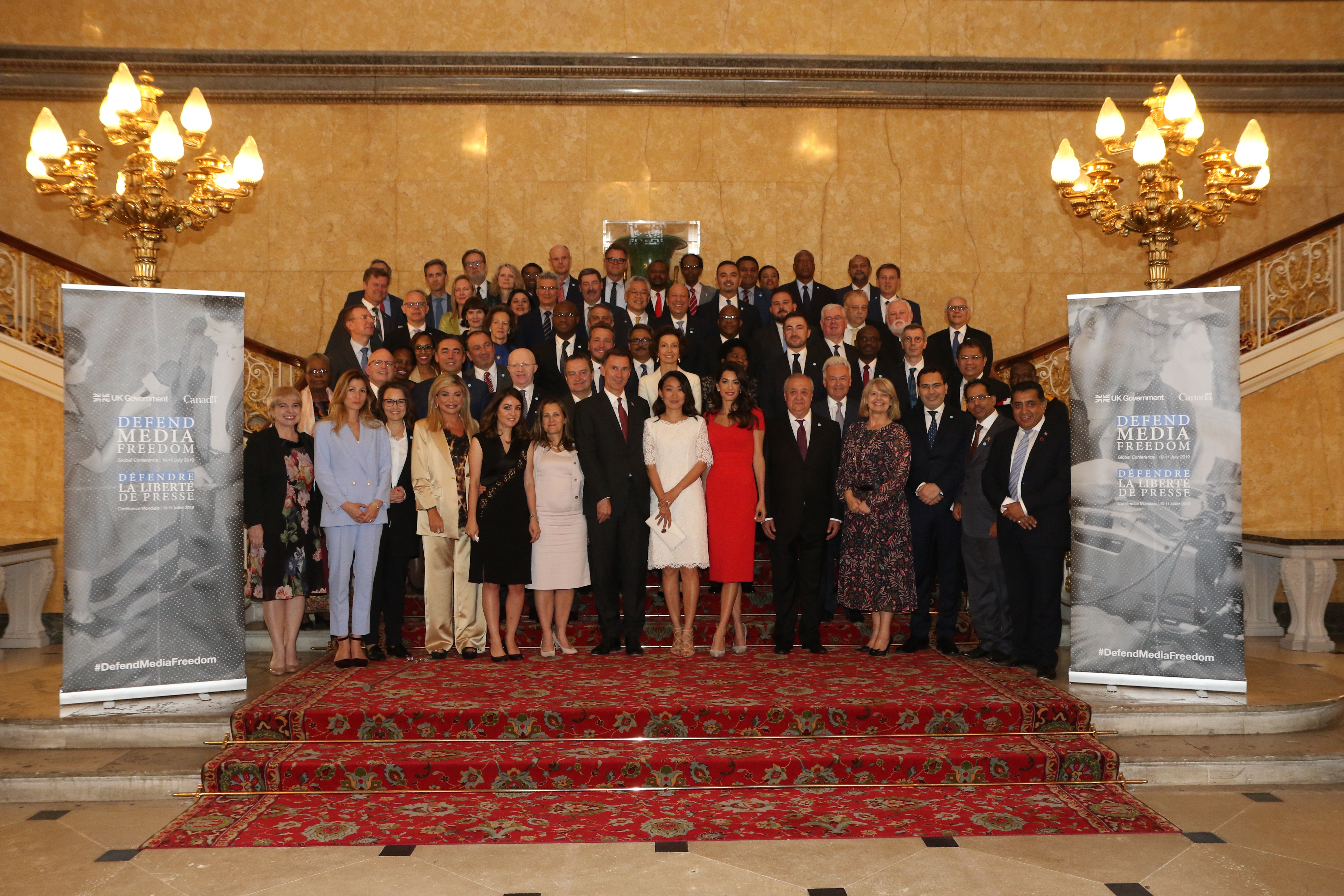 Global Conference for Media Freedom in London.